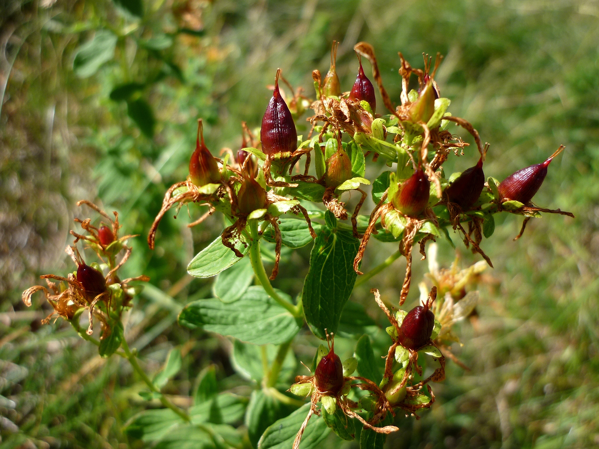 Hypericum montanum. Near the Estany Gento (Pallars Jussà - Catalunya. To 1.890 m altitude